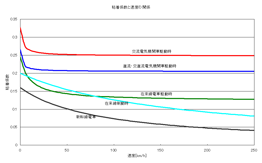 Graph of adhesion coefficient against velocity of rolling stocks, by type of rolling stocks, Japanese version.